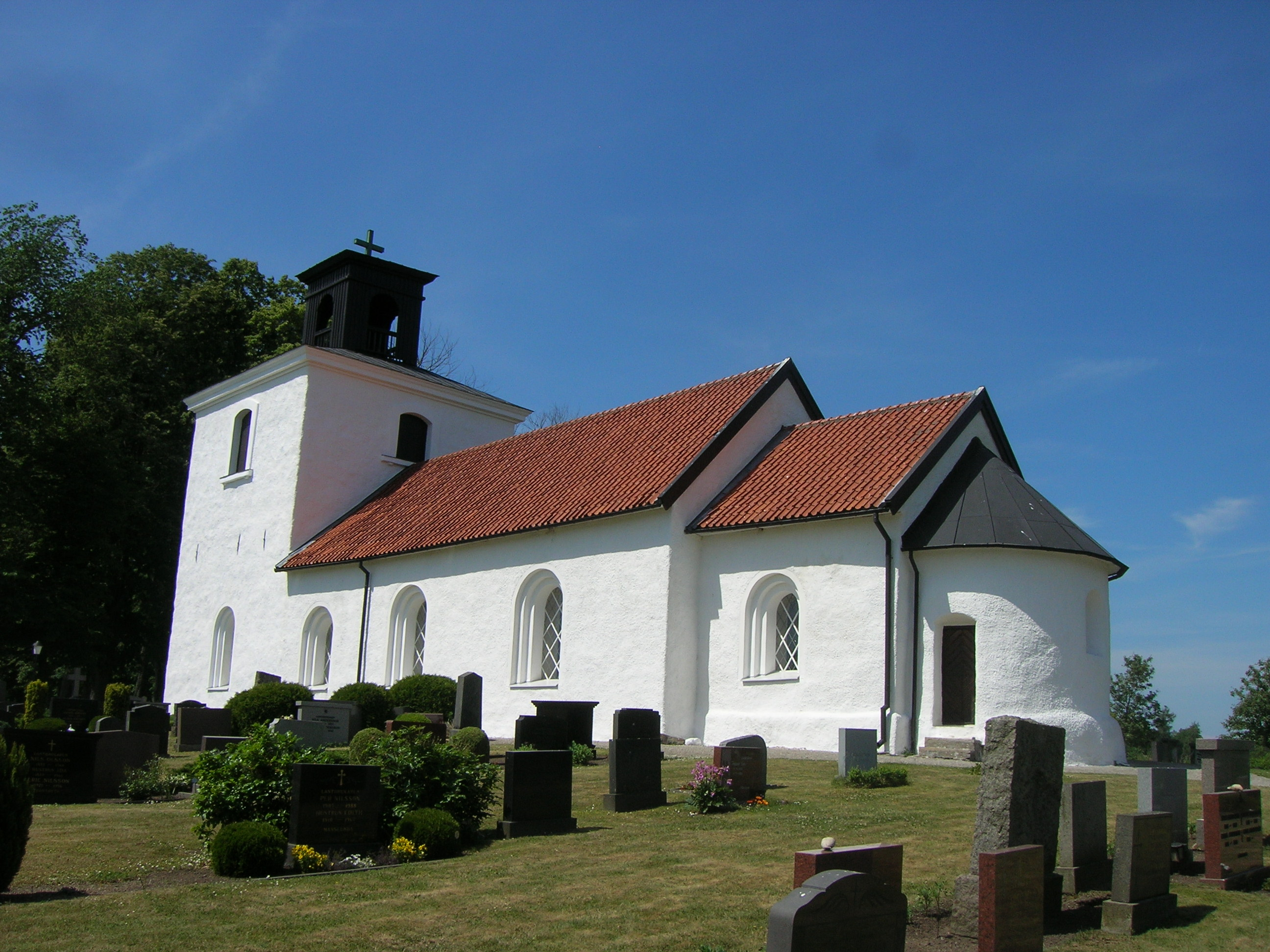 Fågeltofta Church, Tomelilla Municipality, Scania, Diocese of Lund, Sweden.